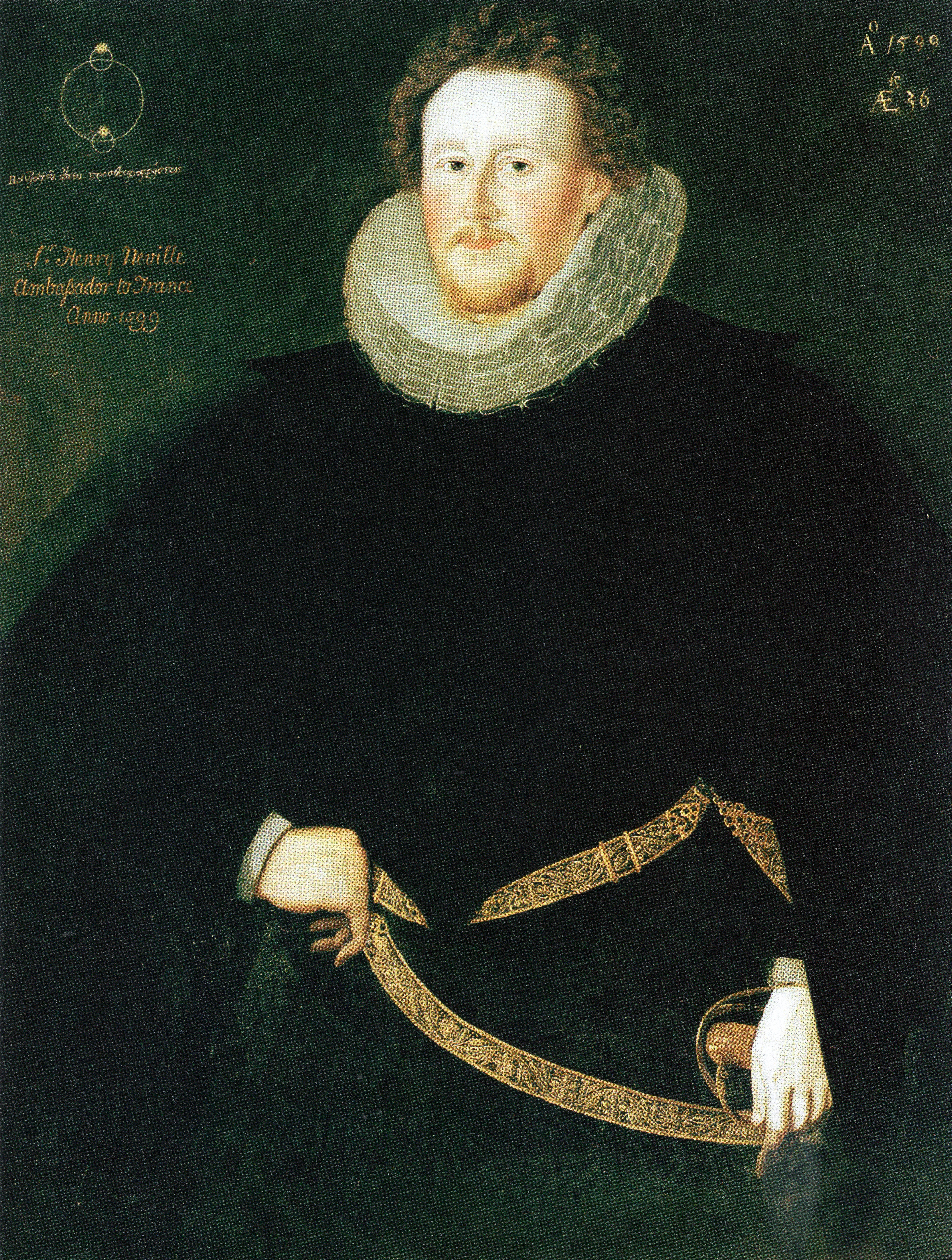 Henry Neville English parliamentarian and diplomat to France, 1599 painting by Marcus Gheeraerts the Younger